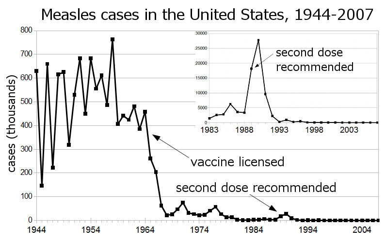 Measles cases reported in the United States, 1944-2007, represented as thousands of cases per year vs. year, with an inset 1983-2007 as cases vs. year. 1983 was chosen for the beginning of the inset graph as it represents the minimum reported cases until 1993, after the booster vaccine was added to the recommendations schedule. Data are from the US Centers for Disease Control. Cases 1944-1993 are reported in: Centers for Disease Control and Prevention Summary of notifable diseases—United States, 1993 Published October 21, 1994 for Morbidity and Mortality Weekly Report 1993; 42(No. 53) Cases 1976-2007 are reported in: Centers for Disease Control and Prevention Summary of notifable diseases—United States, 2007 Published July 9, 2009 for Morbidity and Mortality Weekly Report 2007; 56(No. 53) Date the measles vaccine was licensed (1963) and date the booster vaccine was added to the recommendations schedule (1989) are from: Centers for Disease Control and Prevention. Epidemiology and Prevention of Vaccine-Preventable Diseases. Atkinson W, Wolfe S, Hamborsky J, McIntyre L, eds. 11th ed. Washington DC: Public Health Foundation, 2009